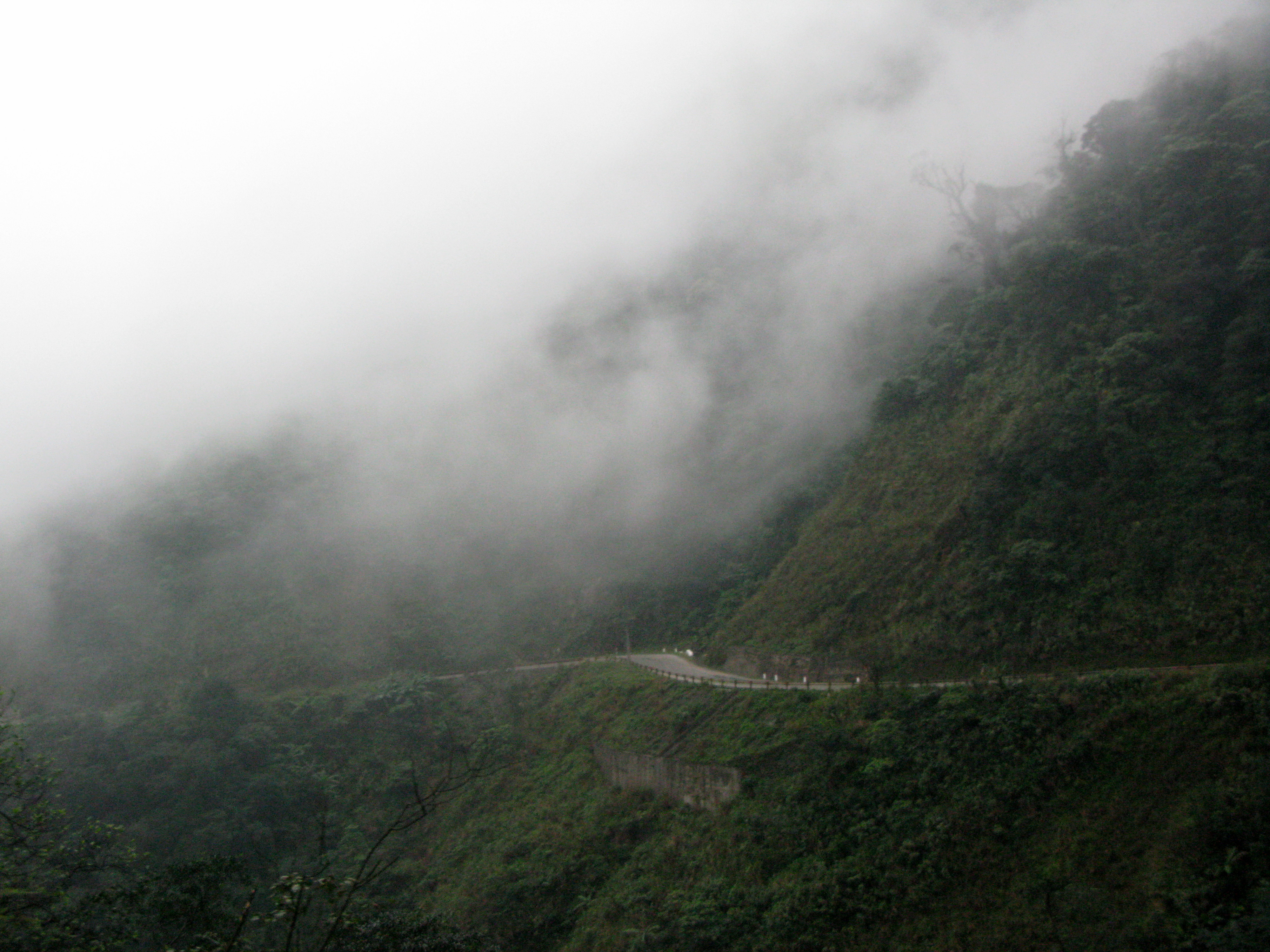 National route #8A in Việt Nam.